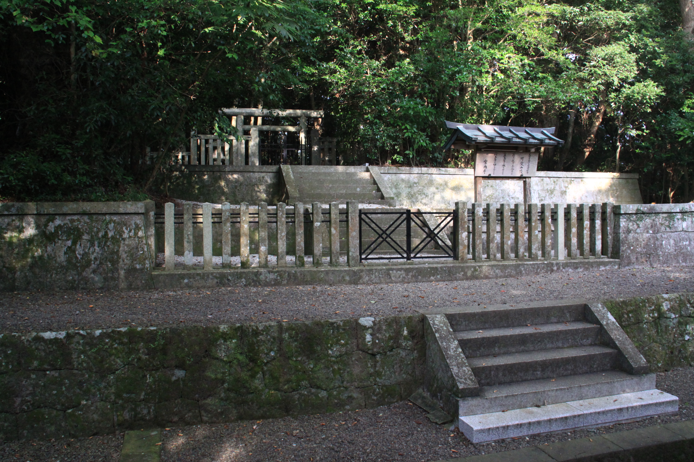 Enoyama-no-misasagi is the tomb of Ninigi-no-Mikoto